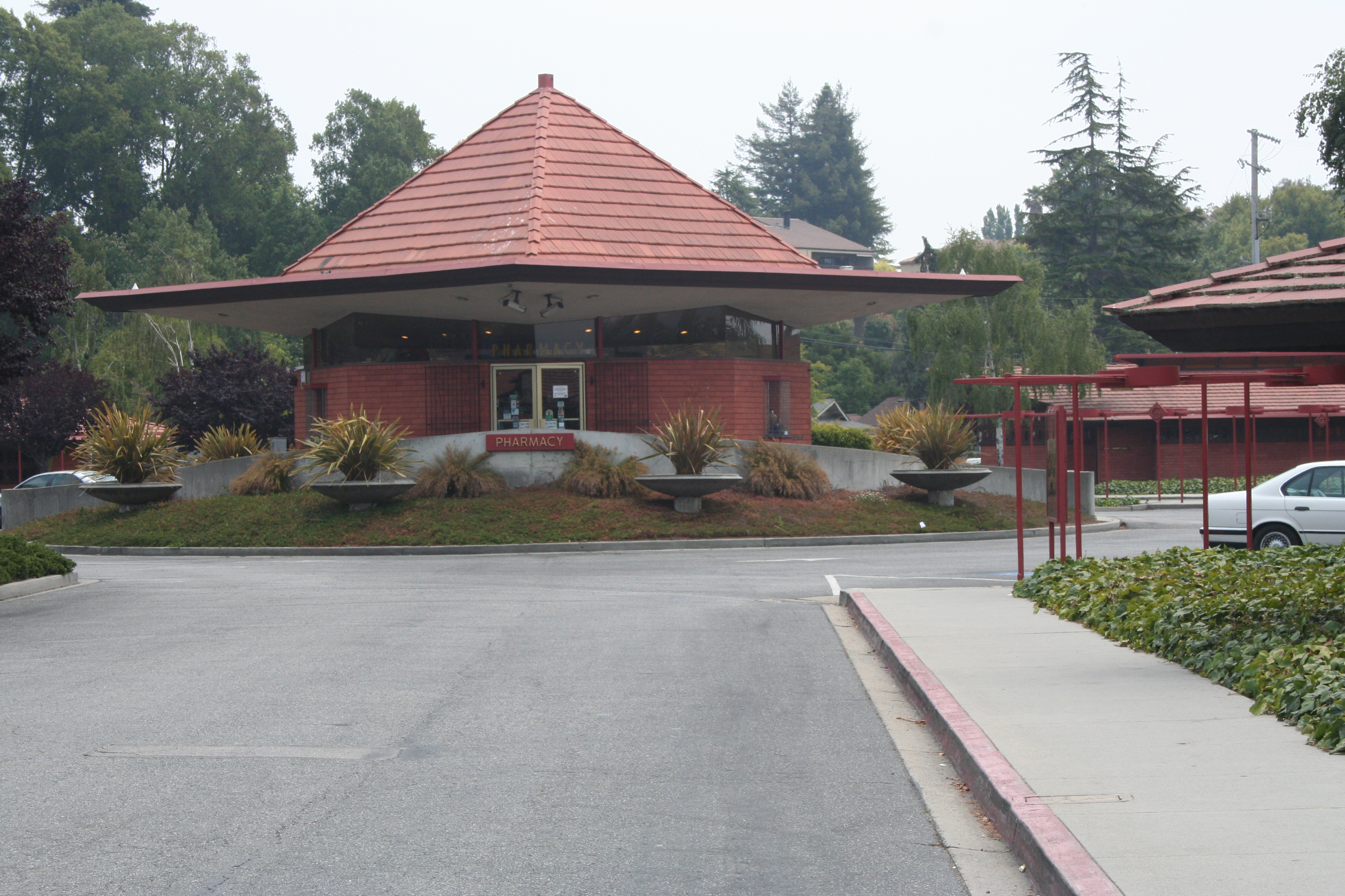 The Medical Offices at 450 Water Street in Santa Cruz, CA